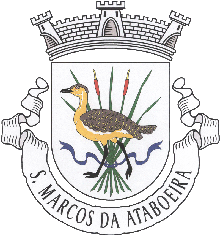 Seal - S. Macos da Ataboeira